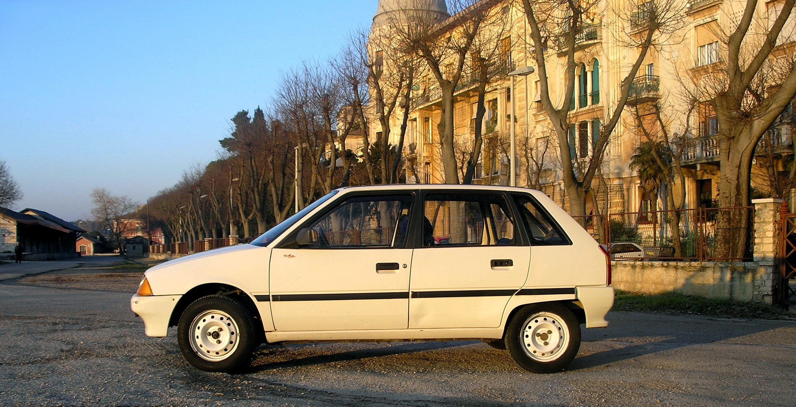 A white Citroen AX.